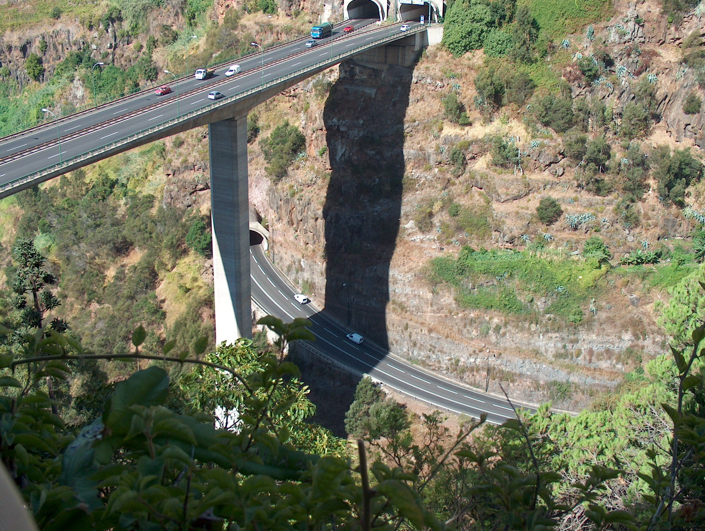 Another view Autobahn-Brücke auf Madeira. Motorway bridge above Funchal, Madeira. This view is from approximately 32°39′31″N 16°56′22″W / 32.6587°N -16.9394°E in Foguete looking southwest into the valley of Ribeira João Gomes. This view taken from a little further to the northeast sets the context - Funchal harbour can be seen in the distance. The lower road is a spur off the motorway going down into Funchal.